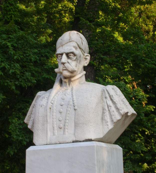 monument of Dimitrakis Plapoutas, own photo, Gepsimos 16:10, 14 May 2006 (UTC)